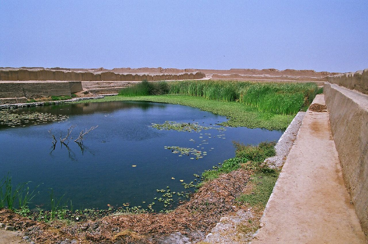 Fresh water pond